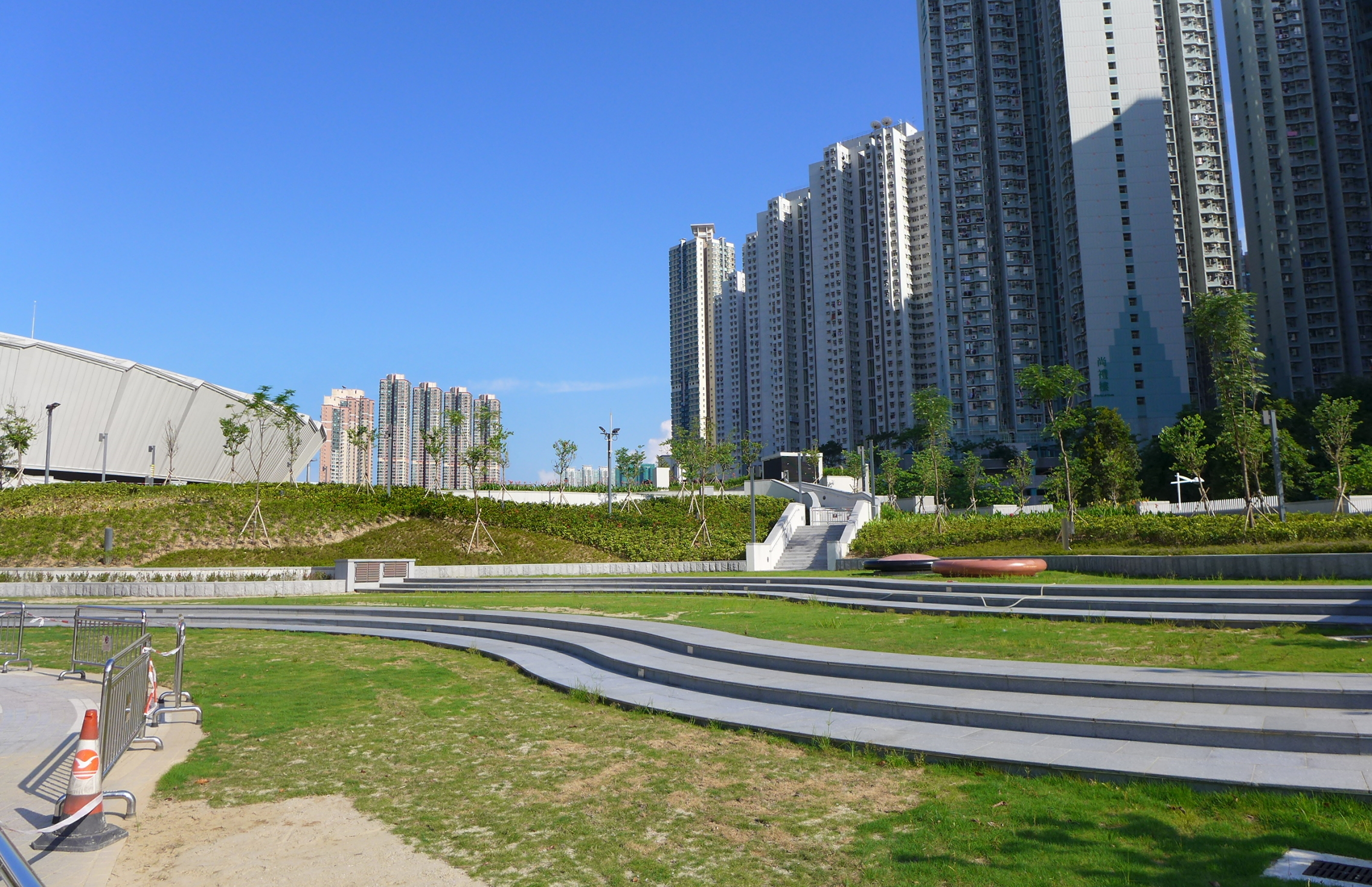 Tseung Kwan O Town Park Grass Area